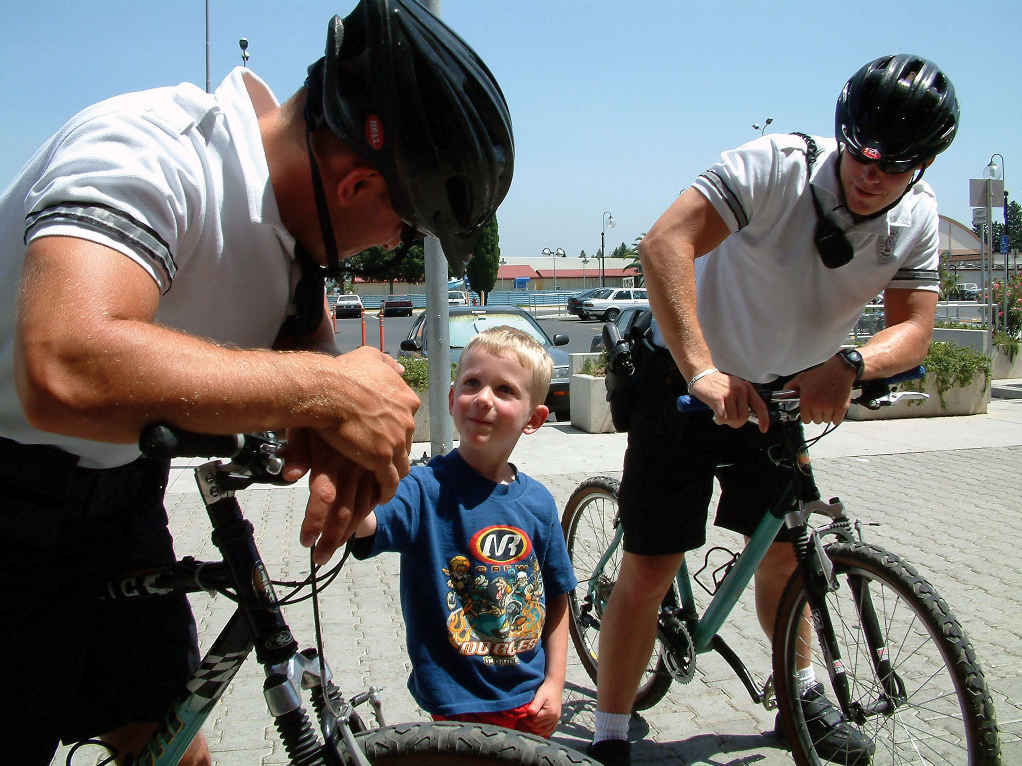 Naval Air Station (NAS) Sigonella, Sicily (Jun. 25, 2003) -- Master-at-Arms 3rd Class Vasko Thomas and Photographer's Mate 3rd Class Gunnar Curry Gorder, assigned to Sigonella's bike patrol unit, talk with a young shopper outside the base commissary. The members of the bike patrol maintain a visible and approachable presence in the Sigonella community. NAS Sigonella provides logistical support for Sixth Fleet and NATO forces in the Mediterranean Sea. U.S. Navy photo by Journalist Seaman Stephen P. Weaver. (RELEASED)